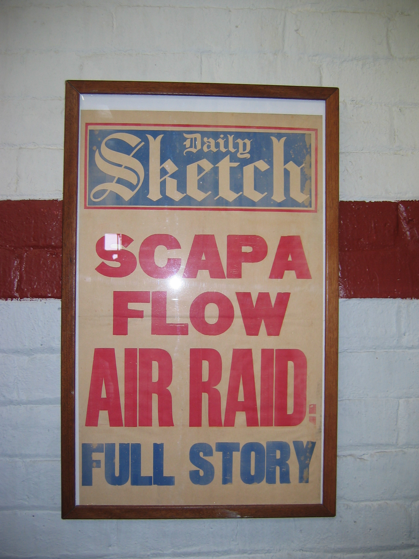 Air Raid Poster, Scapa Flow Museum, Orkney, Scotland